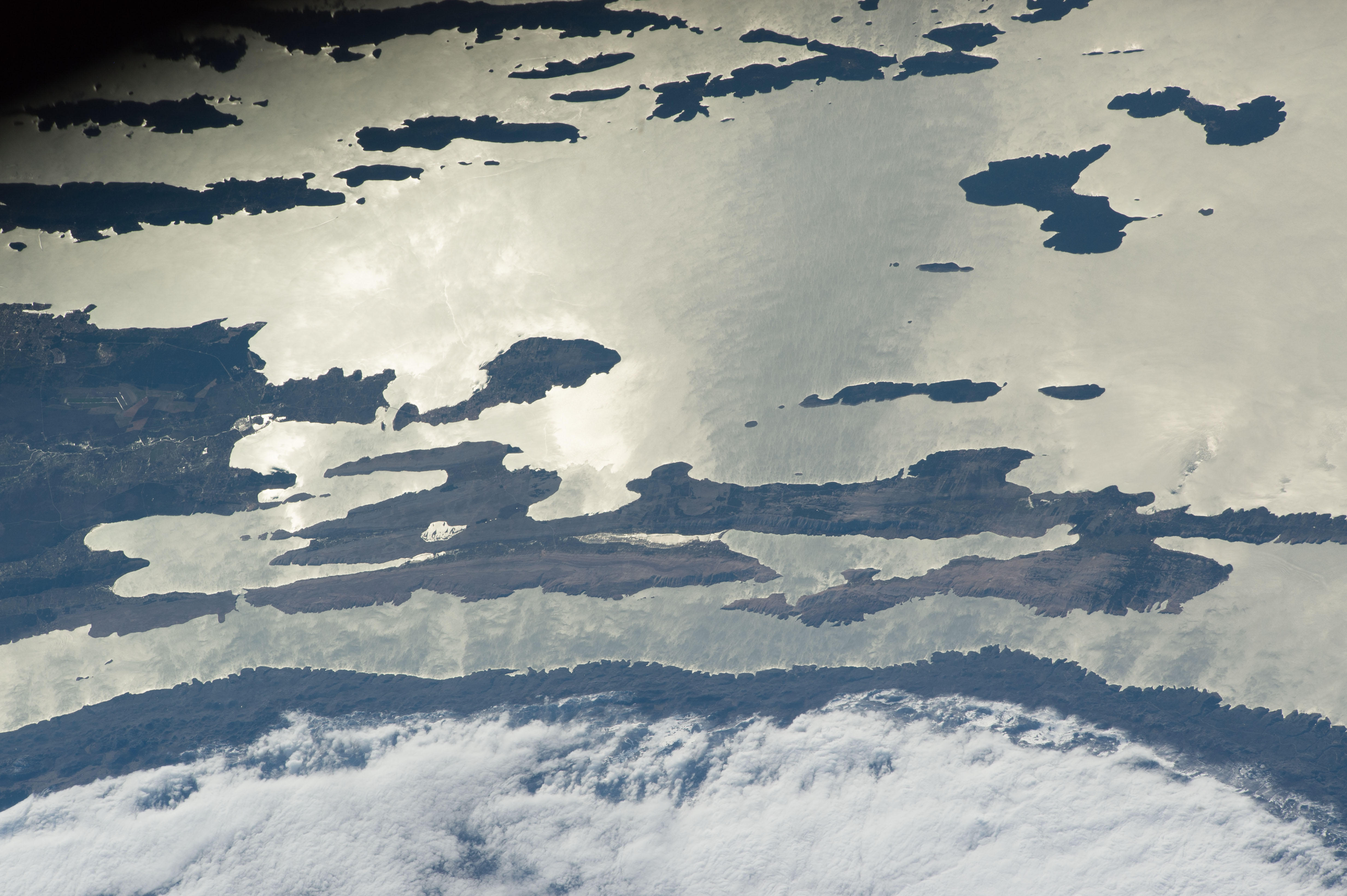 "A rare occasion for us to see the sky -- reflected off the water near these Adriatic Sea #islands . @Space_Station" -- NASA astronaut Tim Kopra